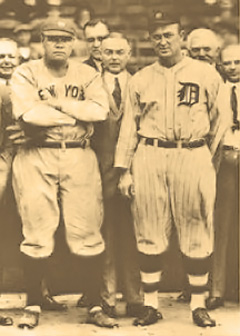 Babe Ruth and Ty Cobb